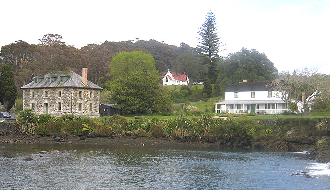 Historic Kerikeri buildings -- Stone Store, St James, and Kemp House.